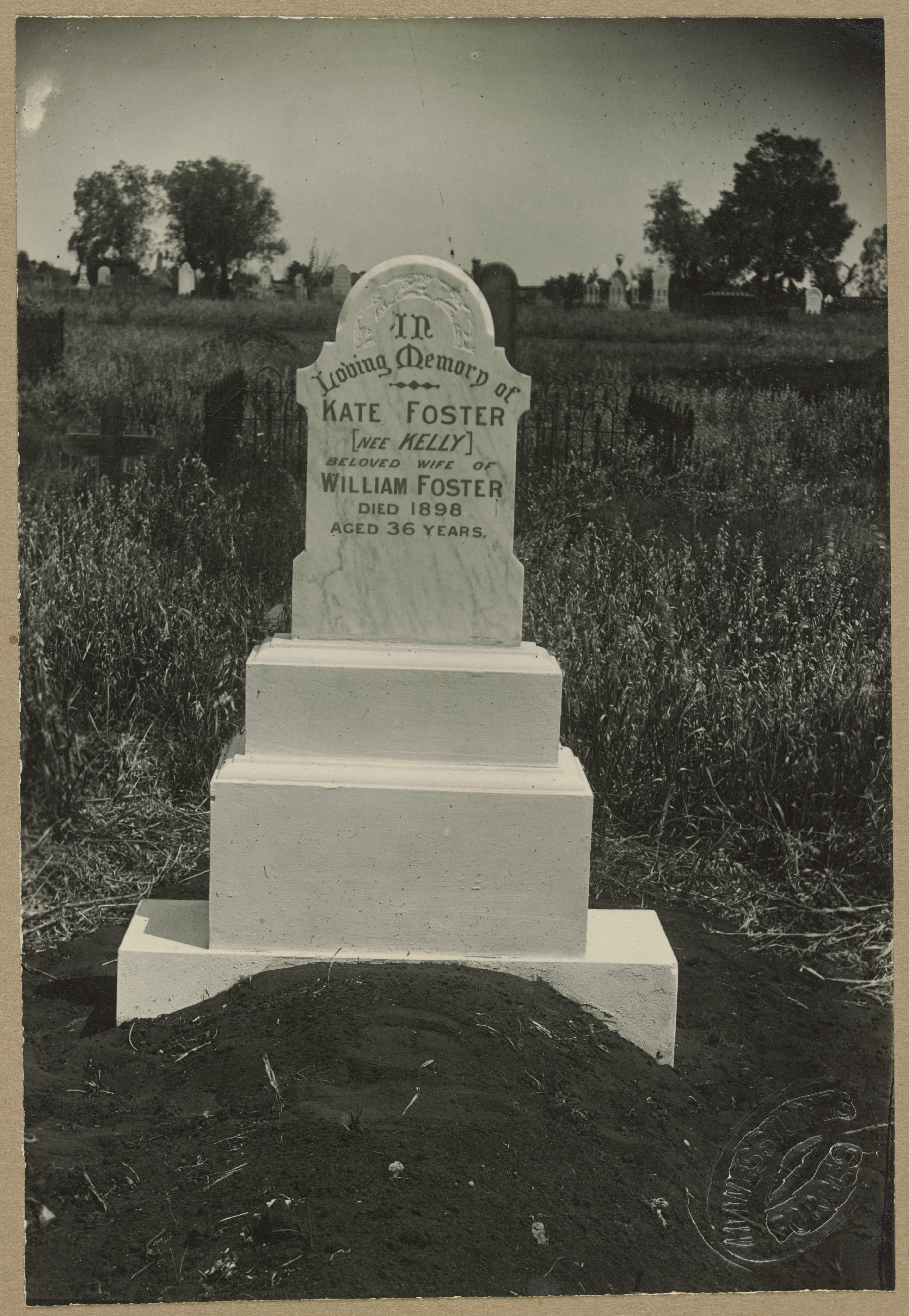 Headstone of Kate Foster, nee Kelly, sister of Ned Kelly, at Forbes Cemetery c.1898